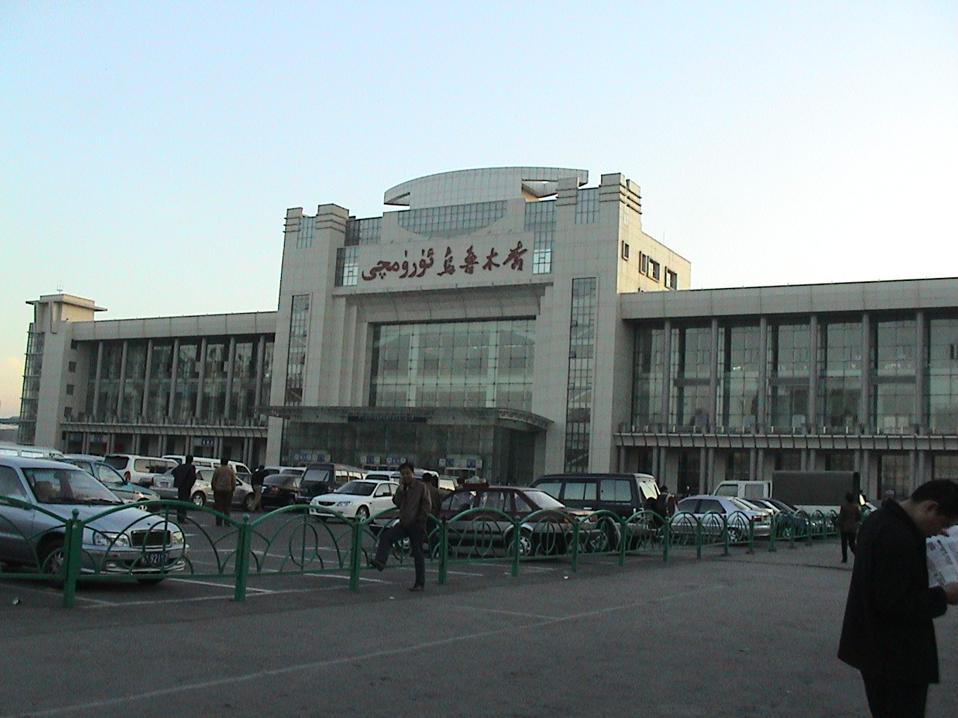 Wulumuqi (Ürümqi) railway station This image was taken by User:Yaohua2000 at 2006-04-25 12:44:08 UTC.